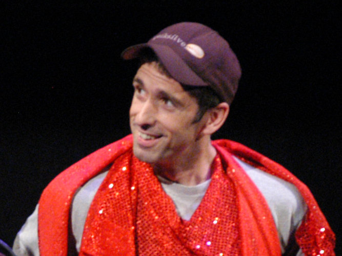 Dan Savage at the 5th Avenue High School Musical Theatre Awards, June 8 2006 Source: flickr (cropped) Photograph taken by Andrew Hitchcock, posted by Jeff Hitchcock